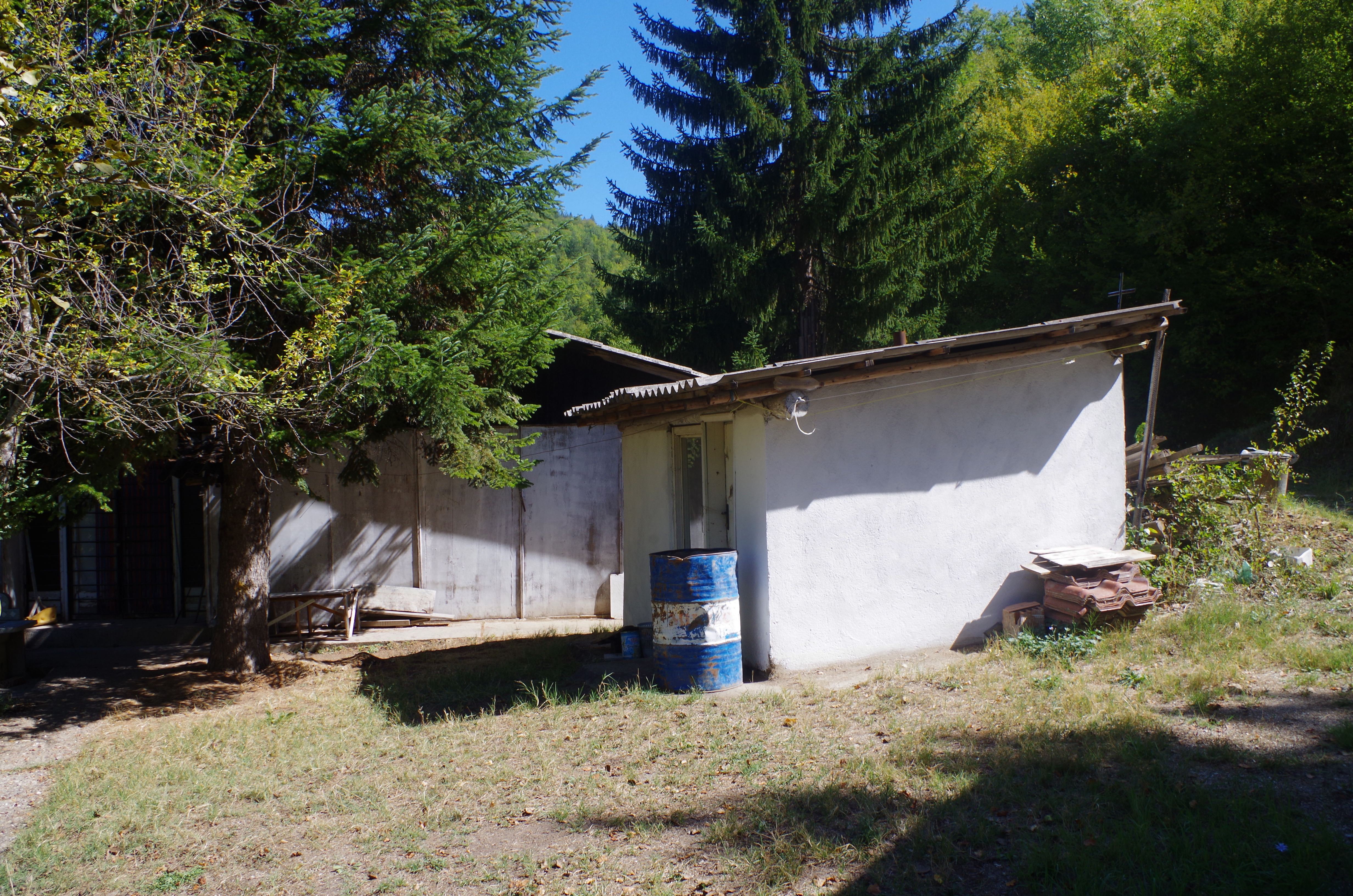 Seconary building in the St. Peter's Church's yard near the village of Rožden